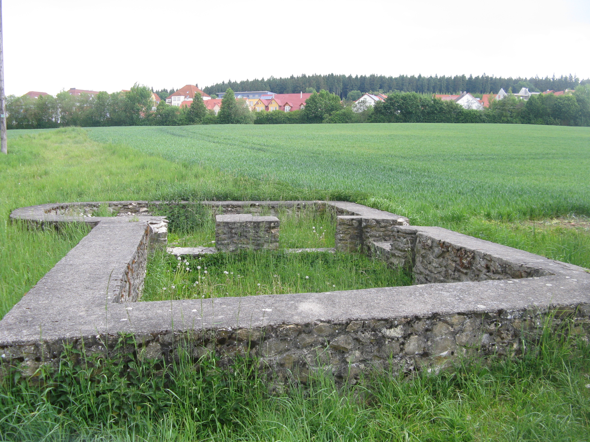 Bad Abbach, Villa Rustica, Bavaria/Germany